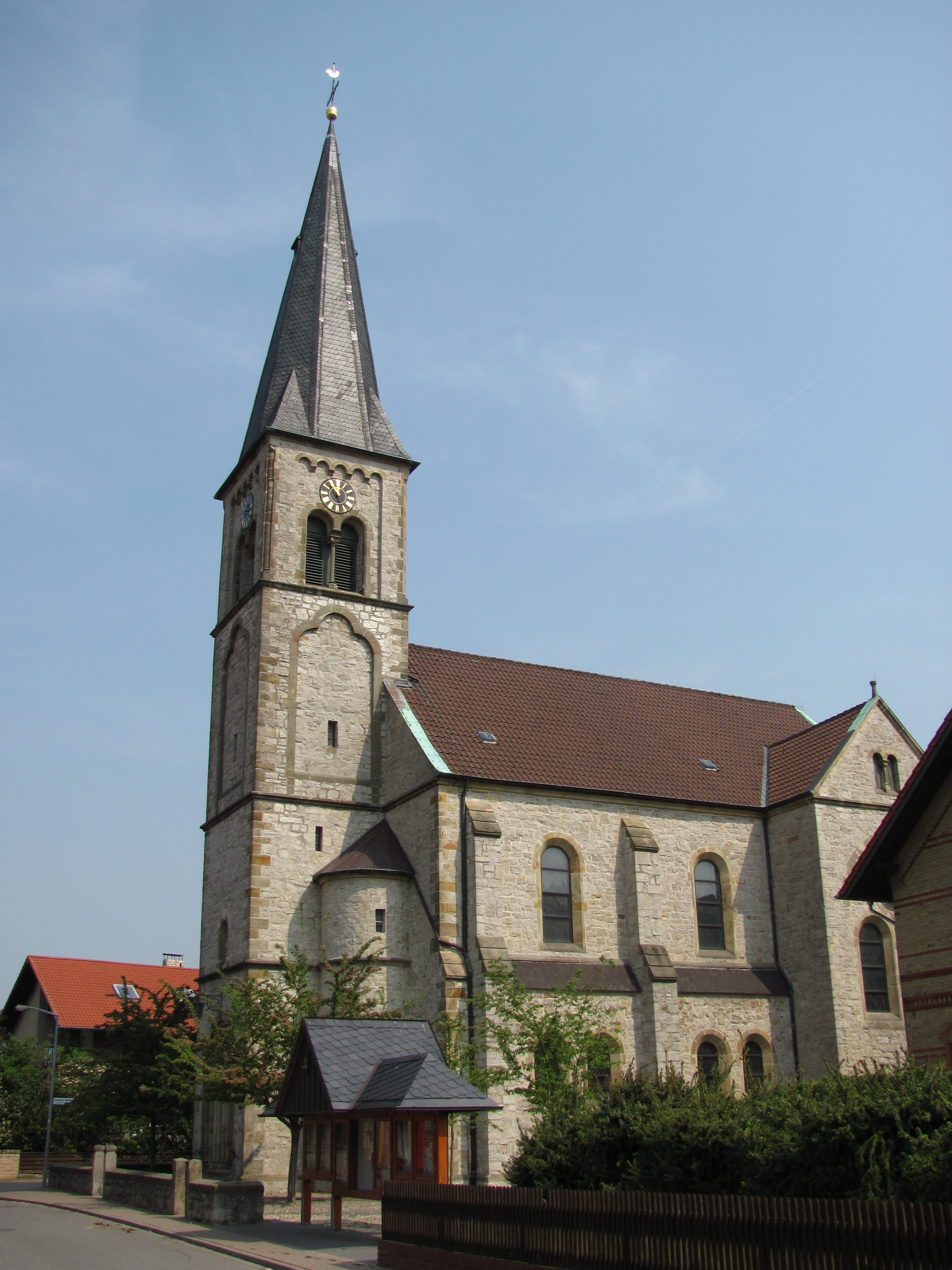 Catholic Church, Schellerten-Bettmar, Lower Saxony, Germany